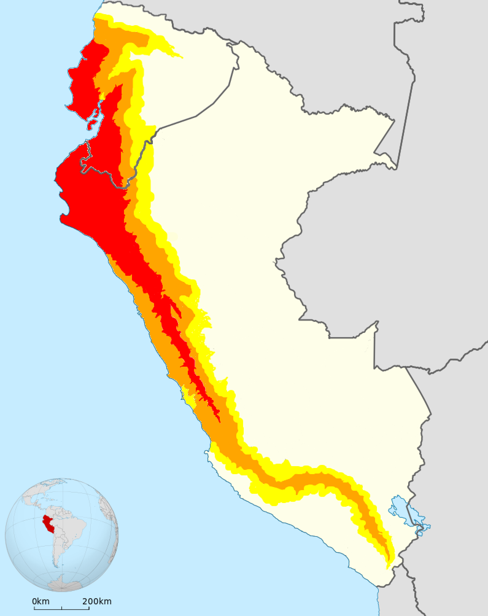 1The main areas affected during the coastal Niño phenomenon (2016-2017)